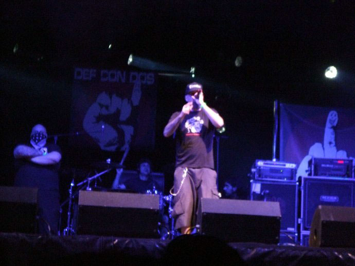 Def Con Dos' live show in Getafe.